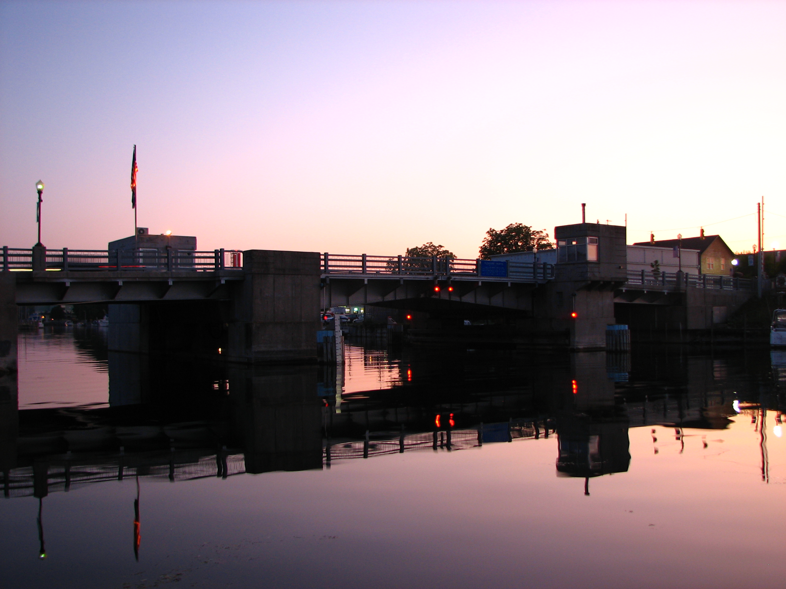 The State Street Bridge, spanning the Cheboygan River in downtown Cheboygan, Michigan, United States, is listed on the US National Register of Historic Places as the Cheboygan Bascule Bridge. It carries U.S. Route 23 across the river.